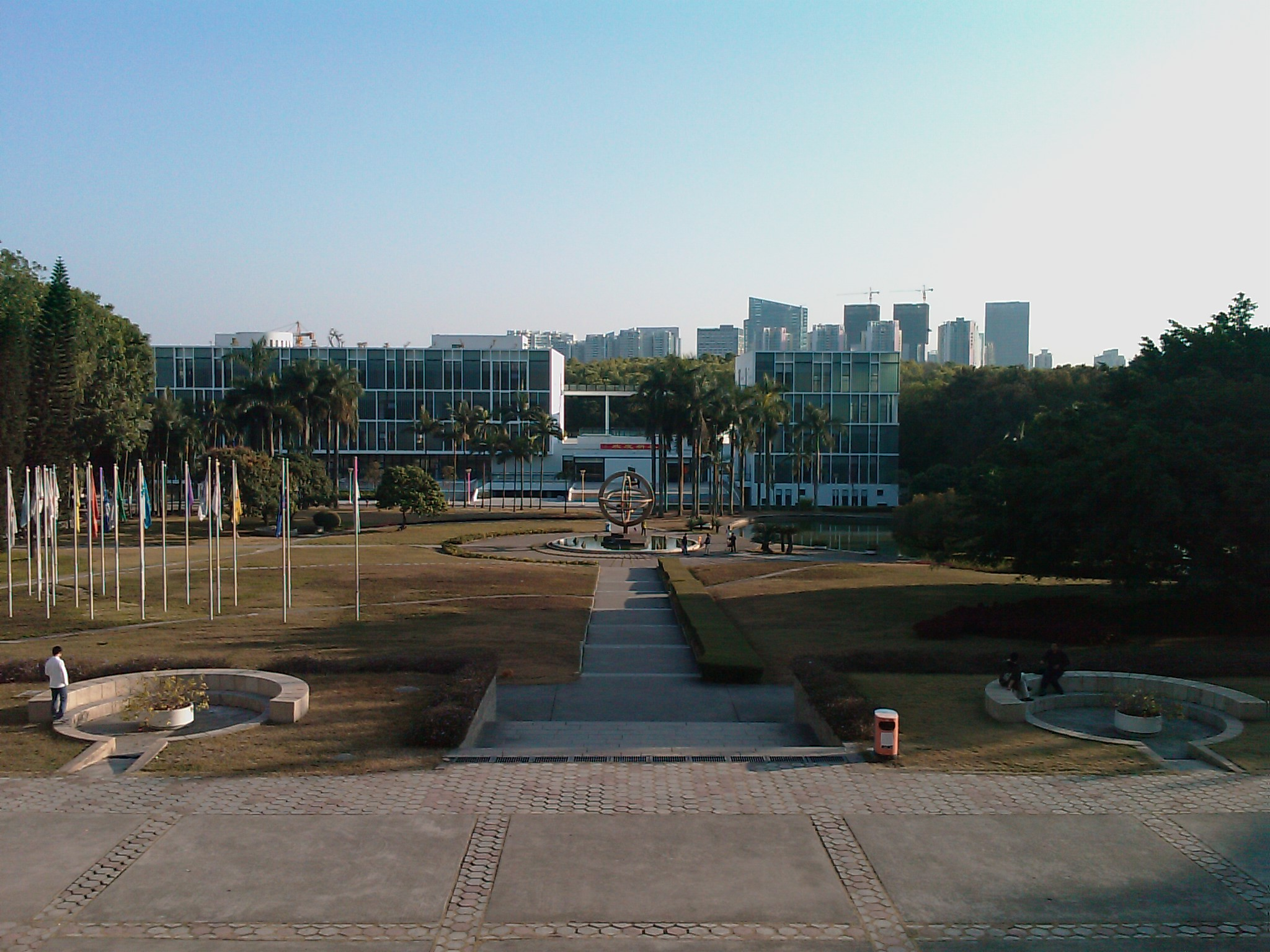 Shenzhen University - Central Square